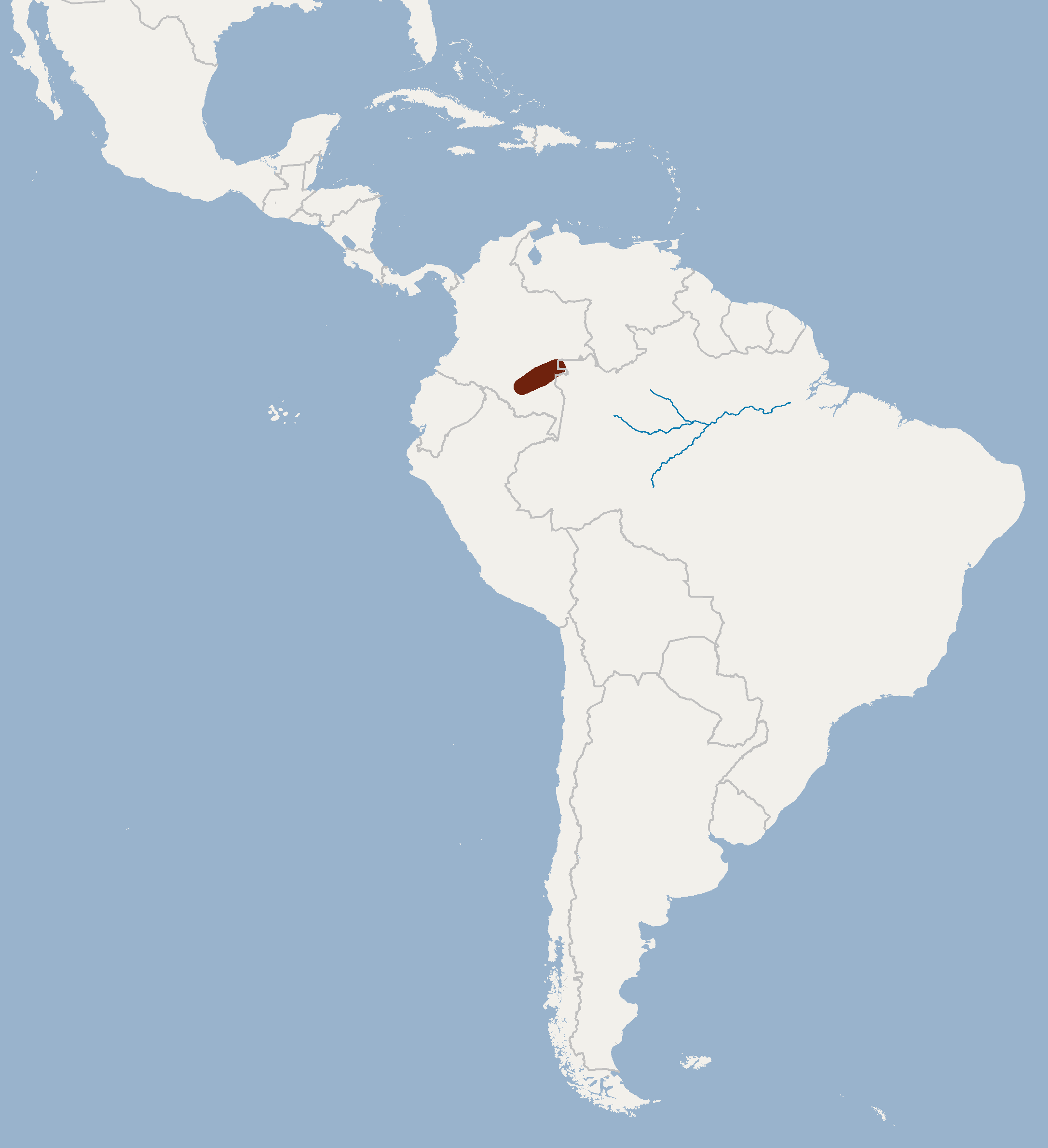 According to Gardner, 2008